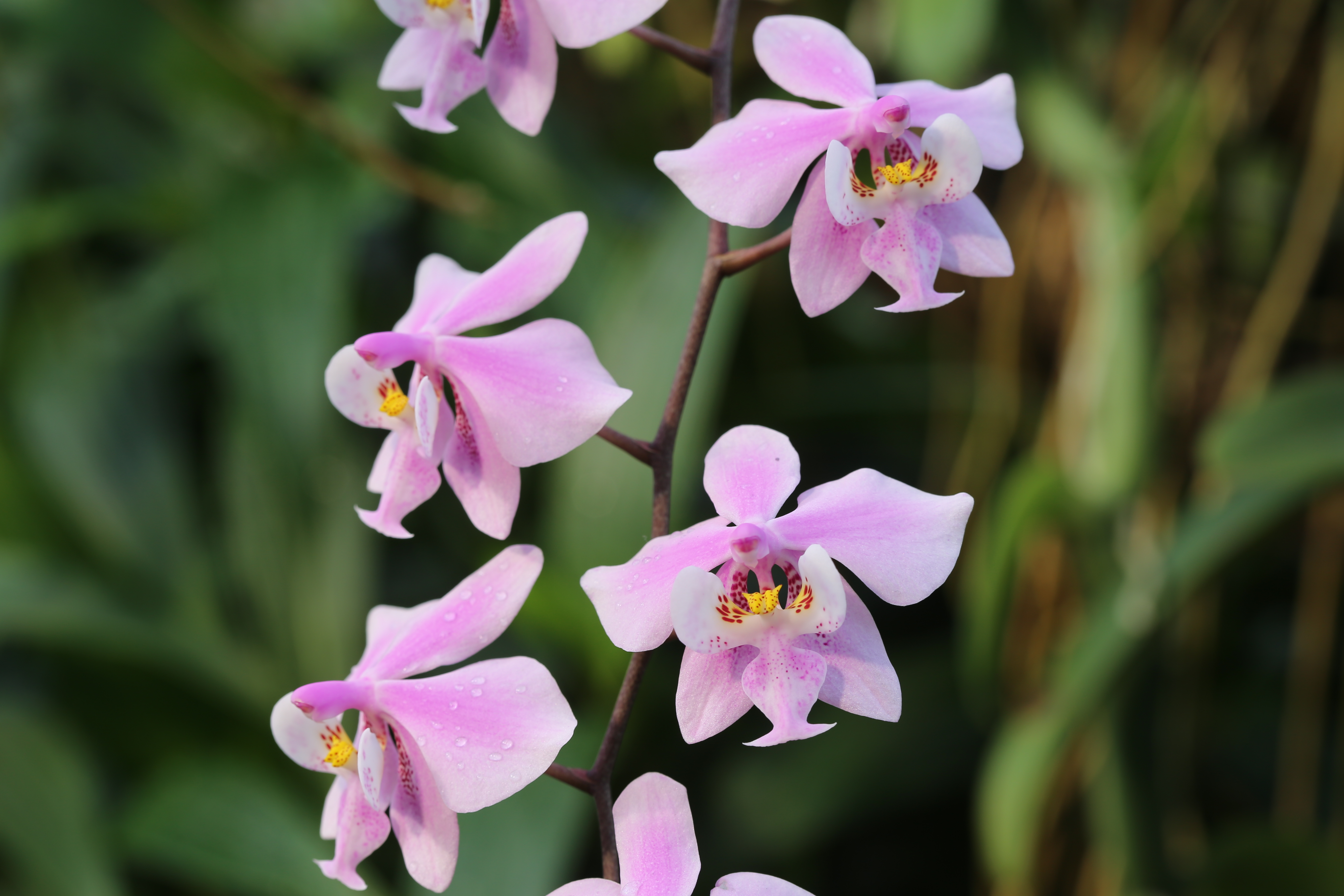 Phalaenopsis schilleriana at Gothenburg Botanical Garden in 2015.